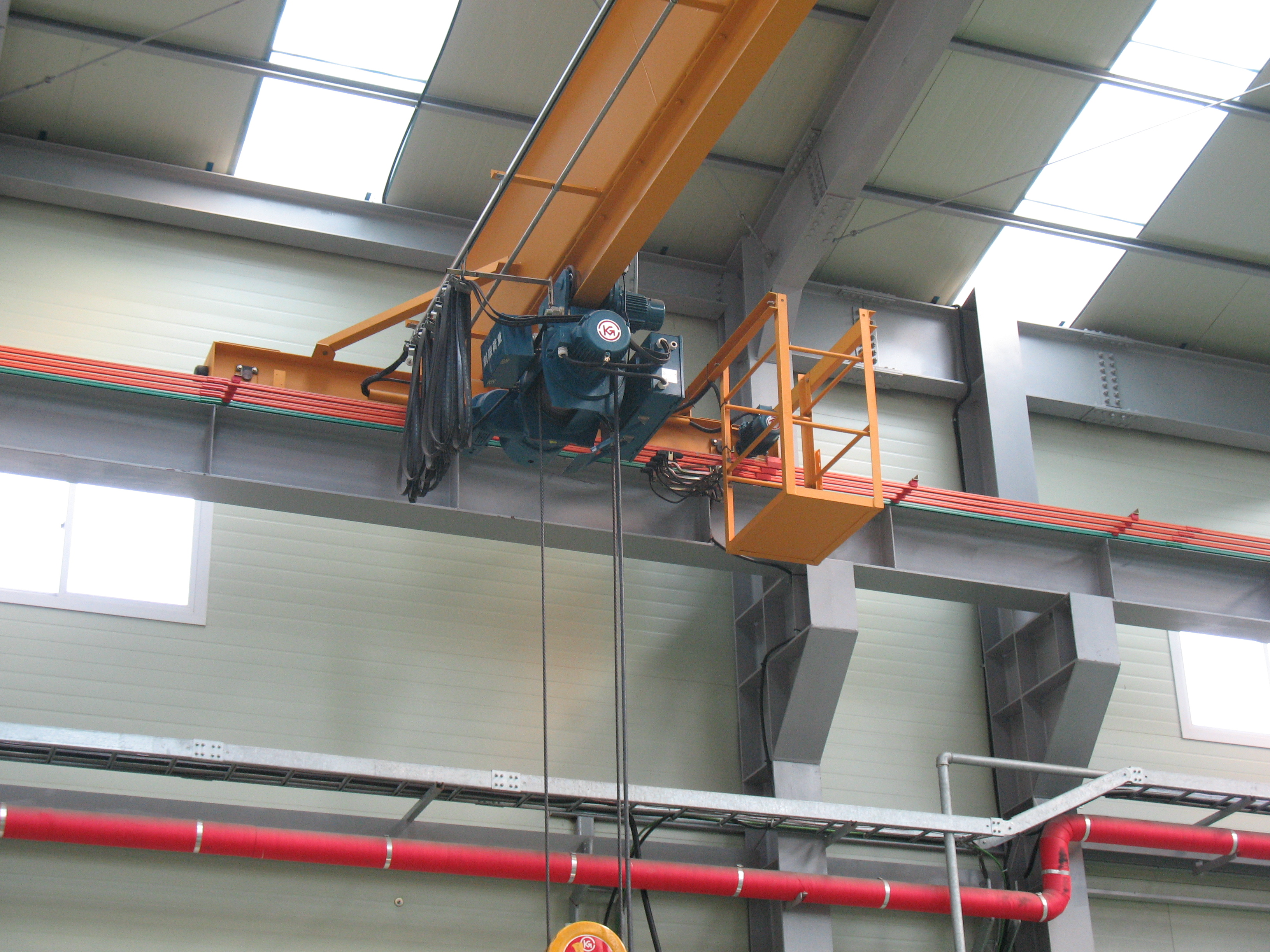 Overhead crane